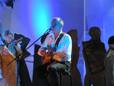 Wojciech Waglewski in concert "Honor jest wasz Solidarni".